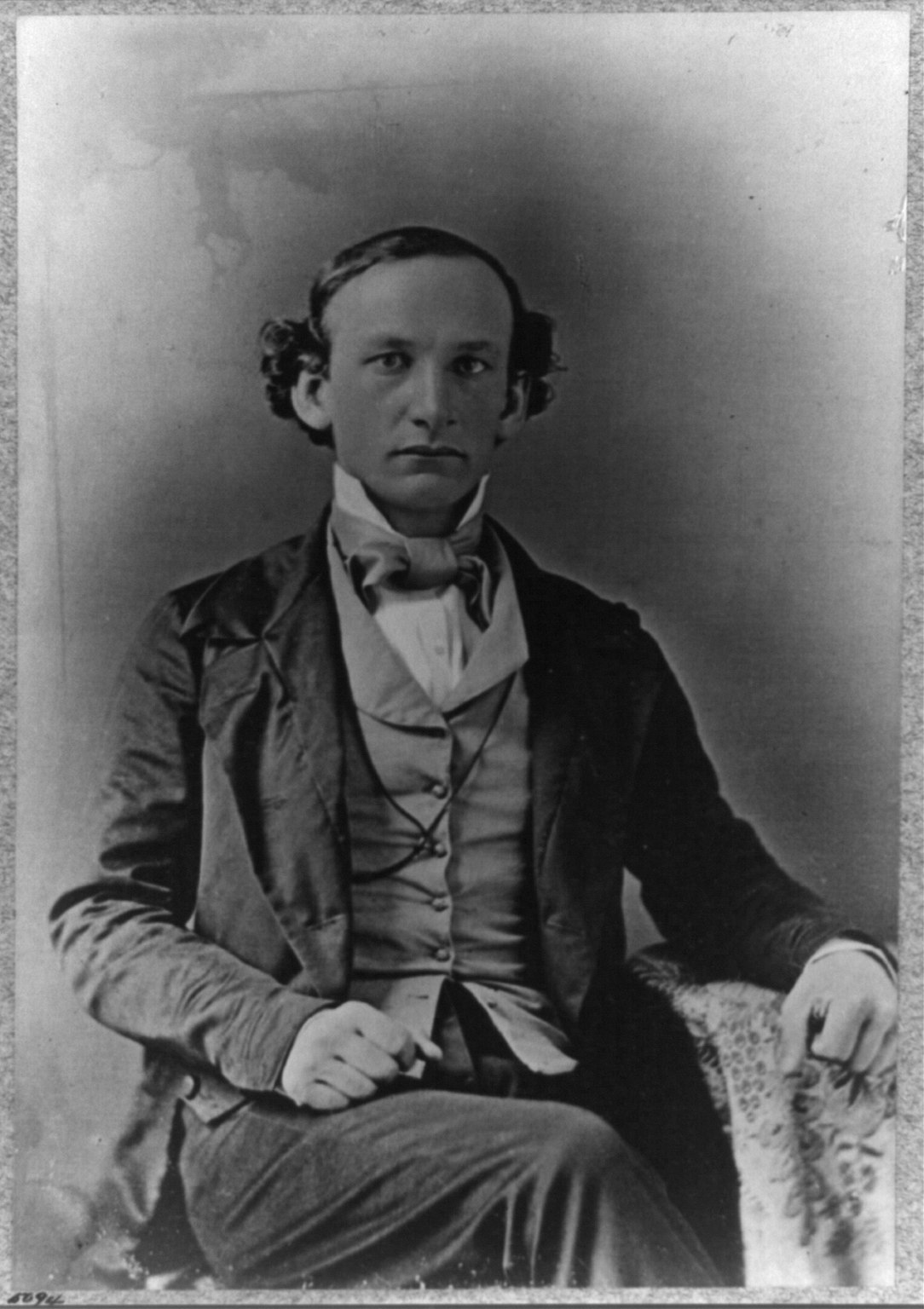 Title: John Dunovant, 1825-1864 Abstract: 3/4 lgth., seated, facing right. CSA general. Physical description: 1 photographic print : albumen silver. Notes: Civil War Photograph Collection (Library of Congress).; Civil War Collection.; This record contains unverified data from caption card.; No. 5094.